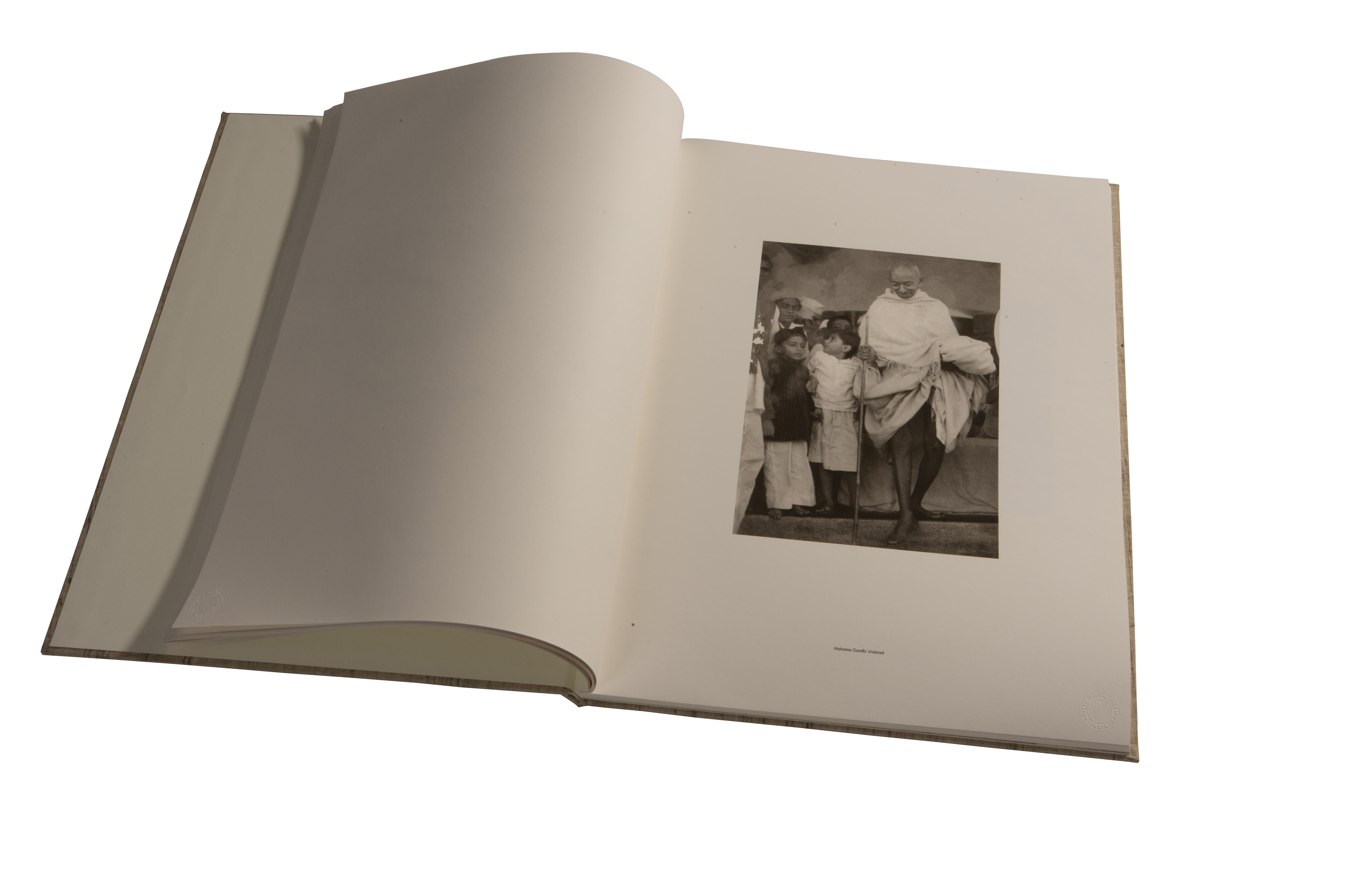 A Gandhi collection was released from Roy's Collection by India Photo Archive Foundation. It was a collector's edition with only 200 copies.